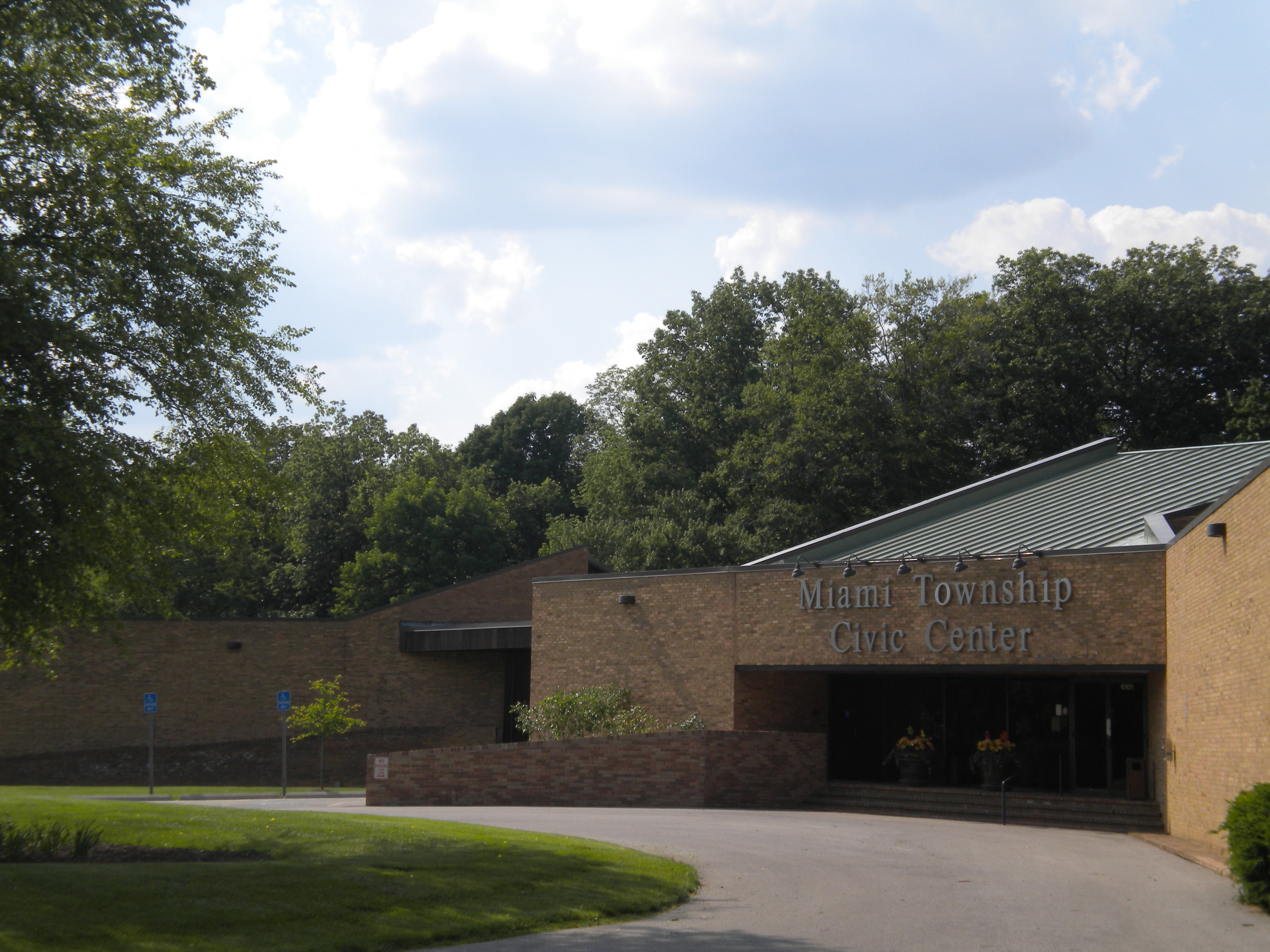 Miami Township Civic Center, Clermont County, Ohio